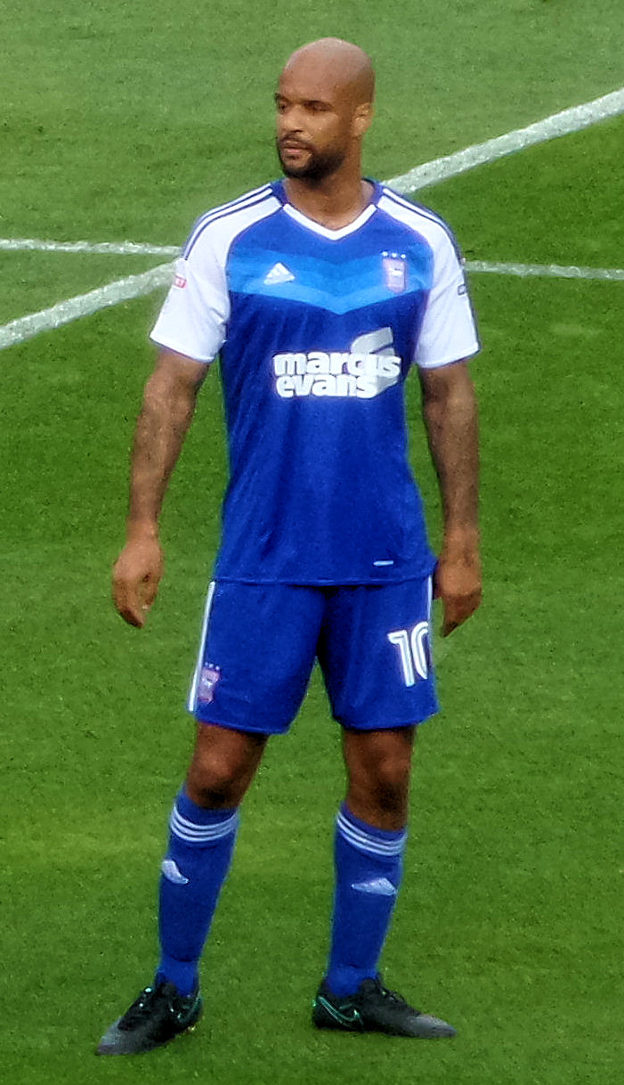 David McGoldrick playing for Ipswich Town against Barnsley on 6 August 2016